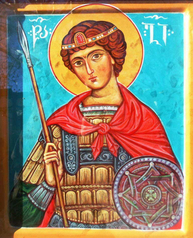 წმ. გიორგი